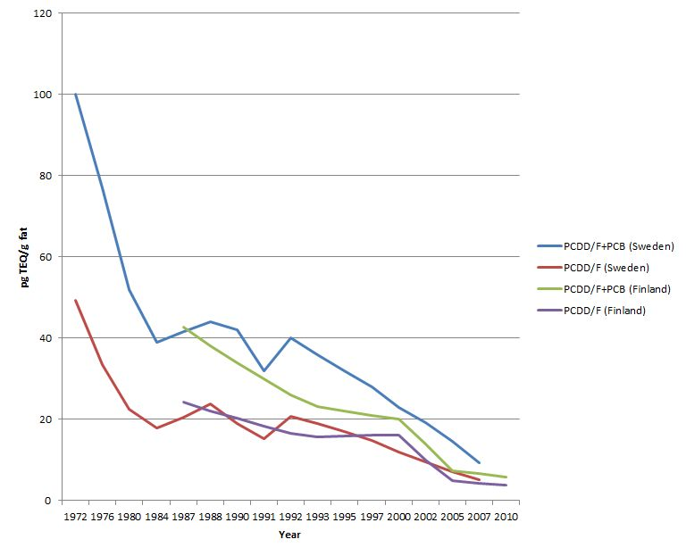 Decrease of dioxin concentrations in breast milk in Sweden and Finland (Sweden, early data from Norén and Meironyté, Chemosphere. 2000;40:1111, others from van den Berg et al, Arch Toxicol. 2017;91:83, and WHO database of the Institute for Health and Welfare, Finland, Hannu Kiviranta)